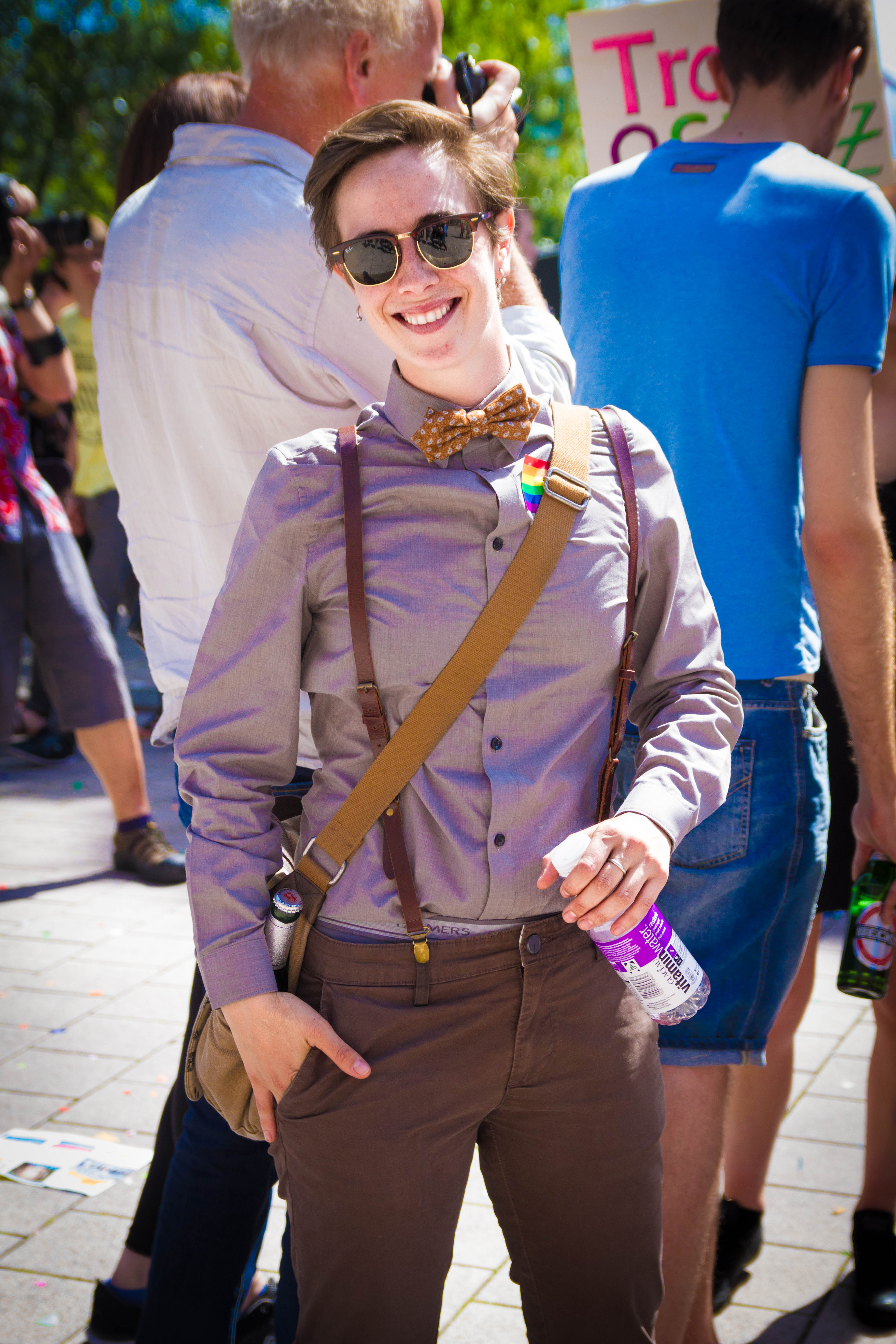 Genderqueer fashion style